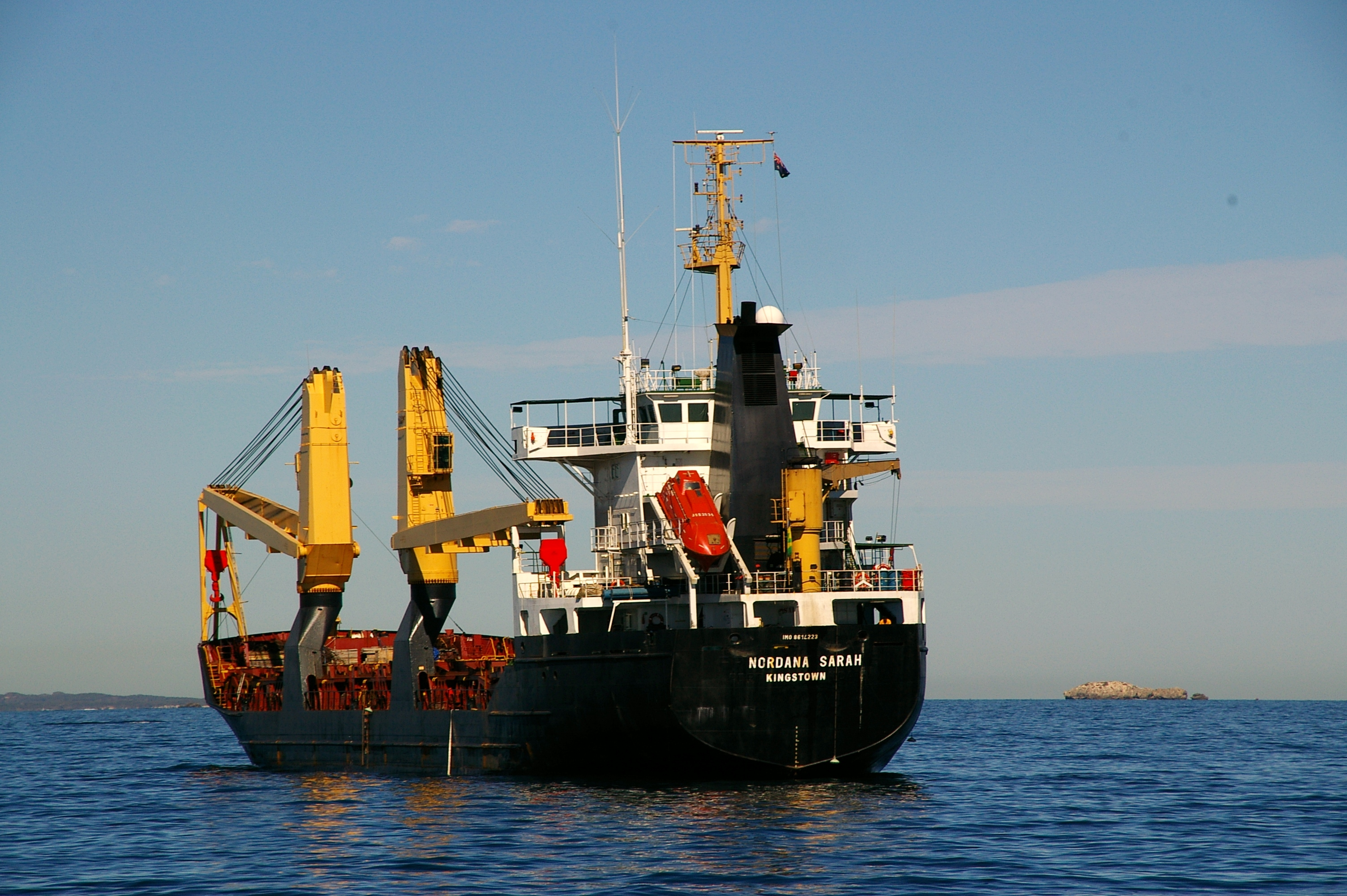 General cargo ship Nordana Sarah at anchor in Gage Roads, part of Fremantle Harbour, Western Australia.